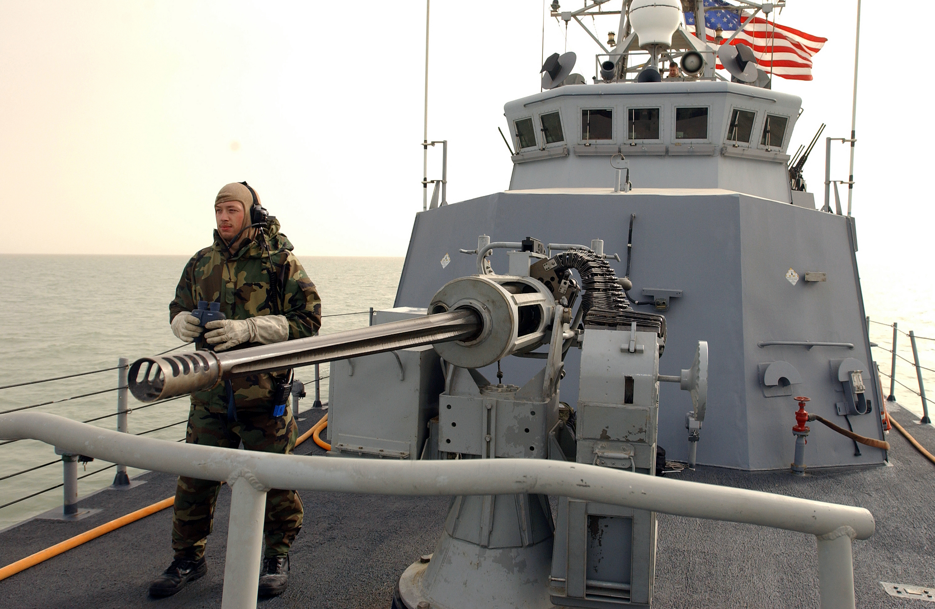 The Arabian Gulf (Mar. 21, 2003) -- Engineman 3rd Class Edward Bessette scans the horizon for contacts and potential aggressors from aboard the Cyclone Class patrol boat, USS Chinook (PC 9). Chinook is conducting missions in support of Operation Iraqi Freedom, the multi-national coalition effort to liberate the Iraqi people, eliminate Iraq’s weapons of mass destruction, and end the regime of Saddam Hussein. U.S. Navy photo by Photographer’s Mate 1st Class William F. Gowdy. (RELEASED)